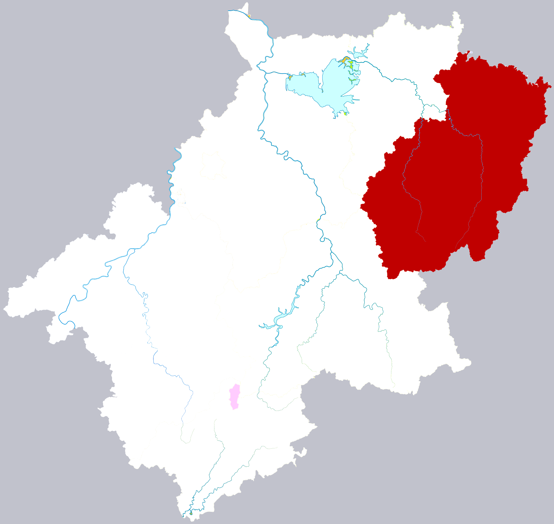 Location of Guangde county-level city in Xuancheng city, China